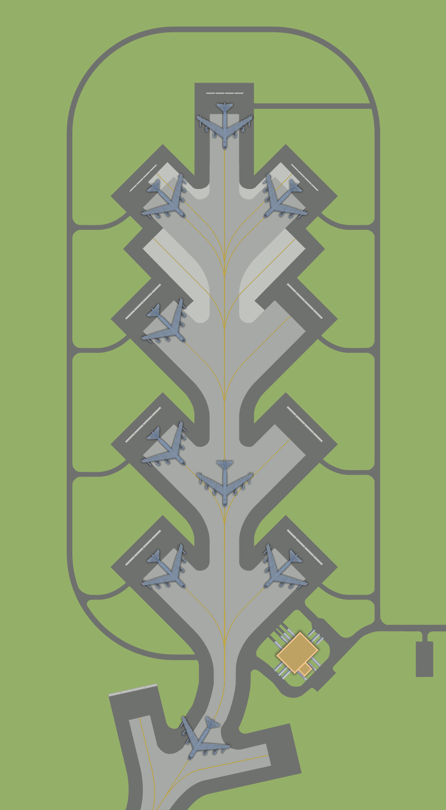 Alert Apron of the former Glasgow Air Force Base, Montana, United States, circa 1957 to 1968. Informally called the "Christmas tree" because of its branch-like pads. B-52 bombers are shown approximately to scale. In the lower right is the partly subterranean "Readiness Crew Building" informally called the "Mole Hole". Illustration made with CorelDraw and Corel PhotoPaint.